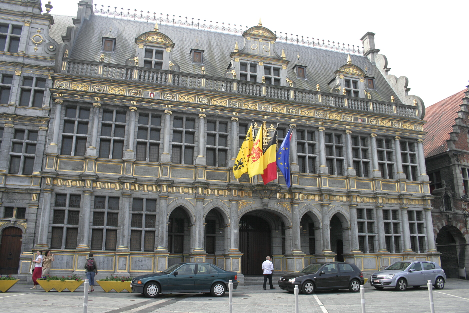 Tournai (Belgium), the Cloth Hall (1610).